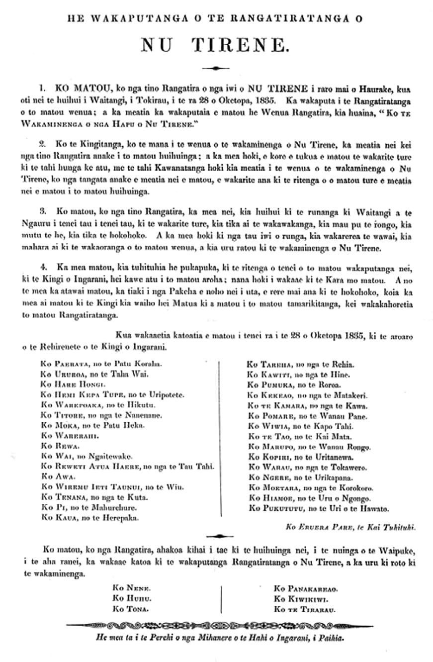 The Declaration of Independence of New Zealand, a printing, made at the Anglican Mission Press at Paihia, New Zealand (1836)